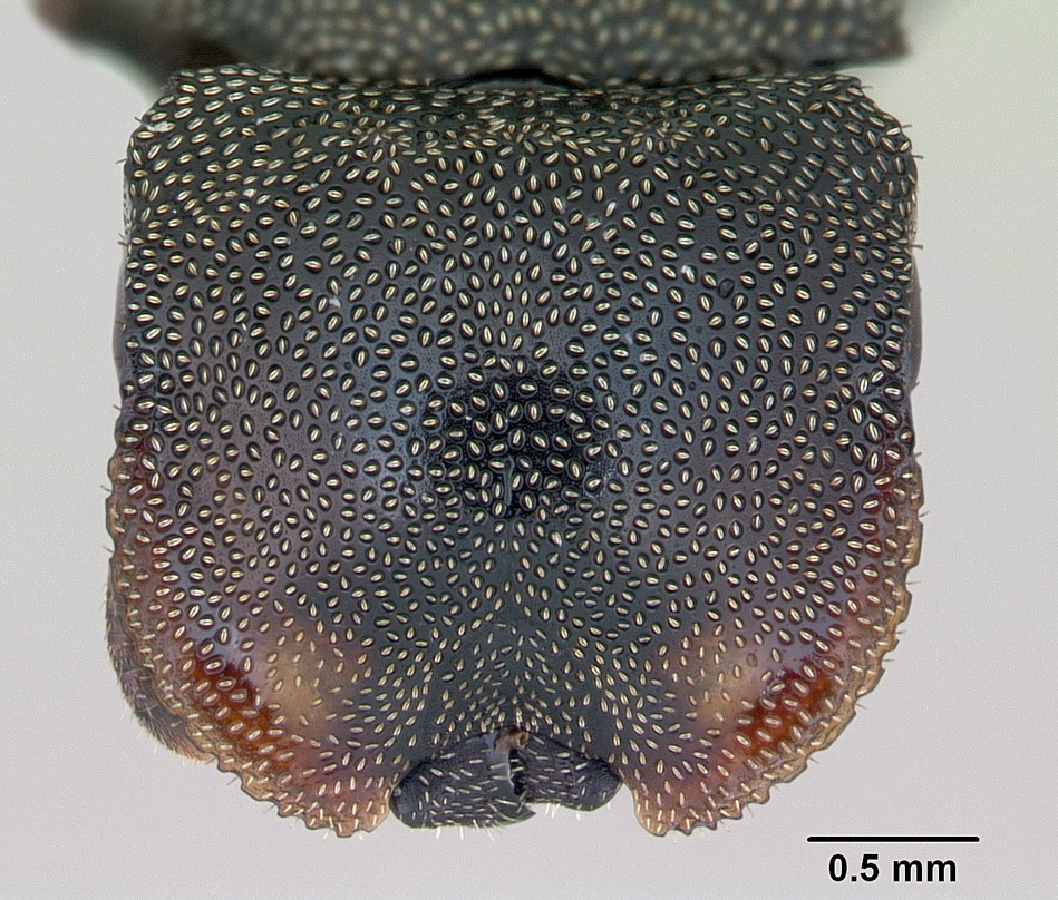 Head view of ant Cephalotes depressus specimen casent0173672.